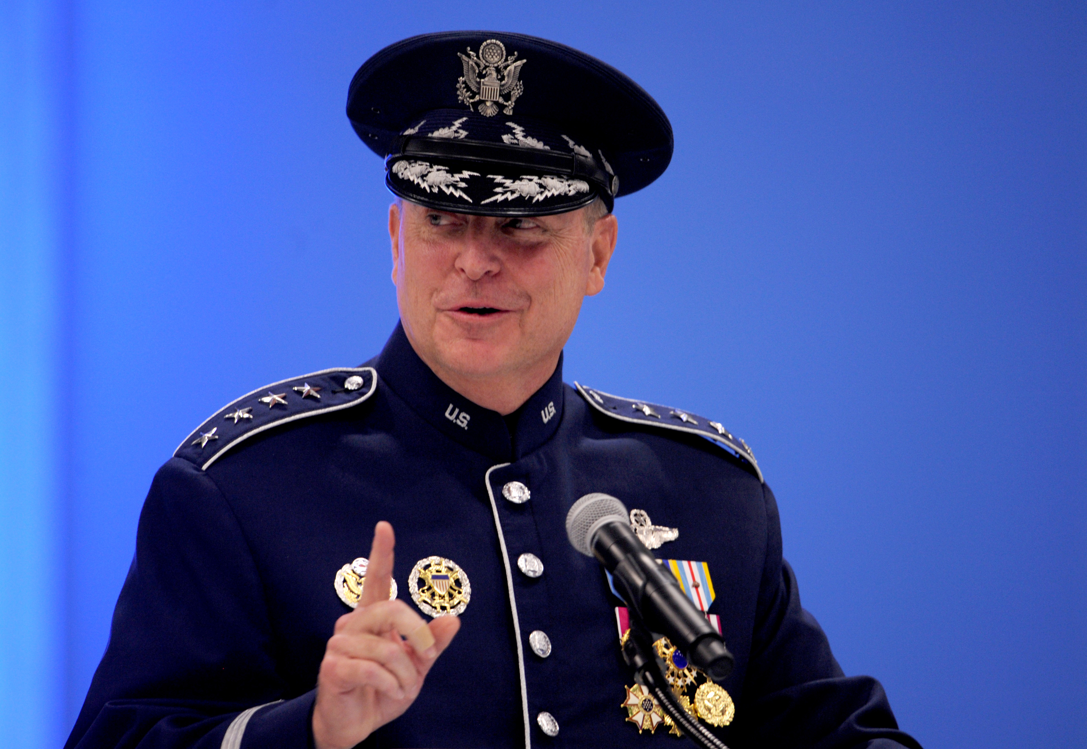 Gen. Mark A. Welsh III addresses the audience after being sworn in as the 20th Air Force chief of staff during a ceremony at Joint Base Andrews, Md., Aug. 10, 2012. Prior to his new position, Welsh was the commander of U.S. Air Forces in Europe. (U.S. Air Force photo/Senior Airman Christina Brownlow)